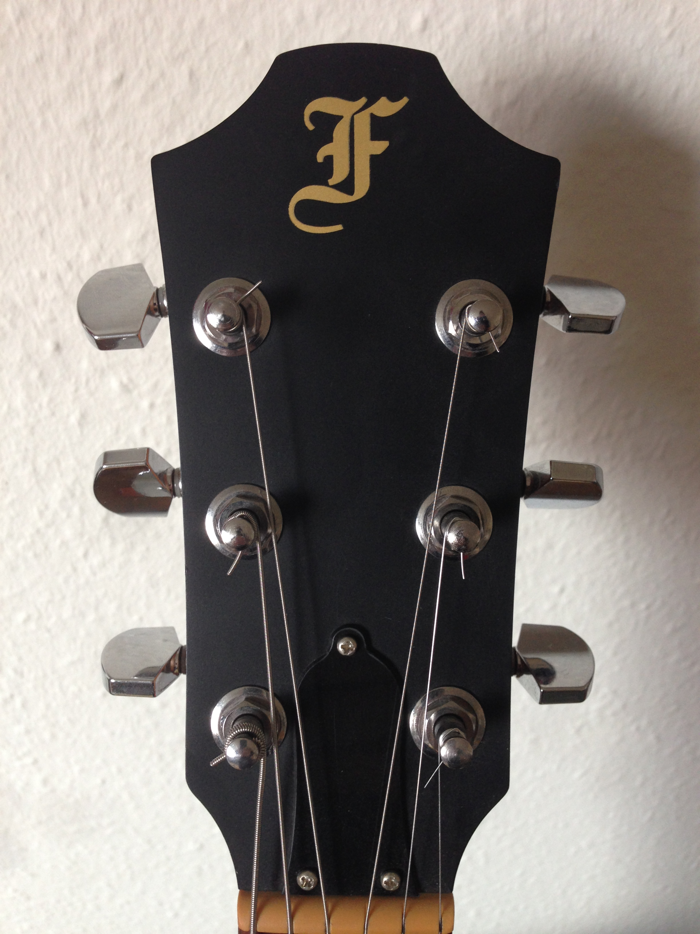 Photo of the headstock of a Furch A17-40 CM guitar